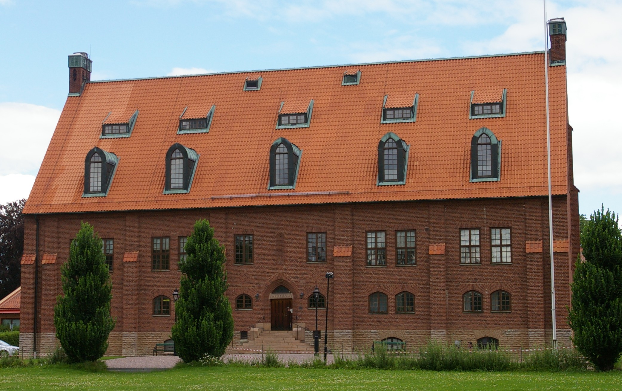 Västergötland county museum in Skara.